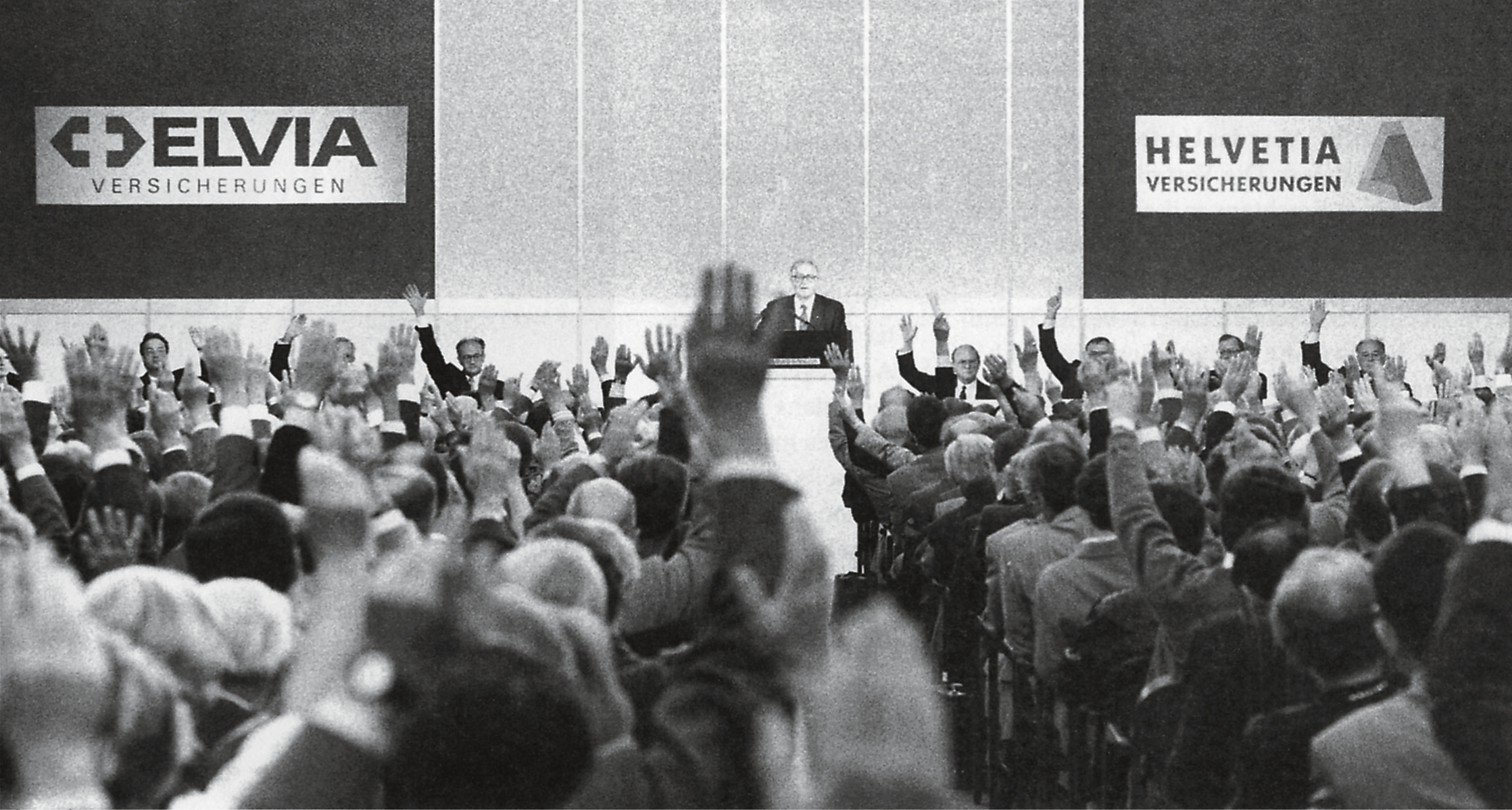 In 1988 the shareholders decided to dissolve the twin structure. The accident specialist Helvetia Unfall had to change its name and chose the name Elvia, while the fire insurer Helvetia Feuer became Helvetia Insurance.